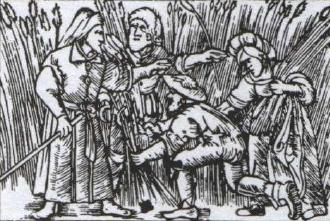 Panszczina (corvea). XVI cn. woodcut